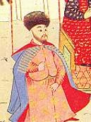 Mehmed I Giray, Khan of Crimea